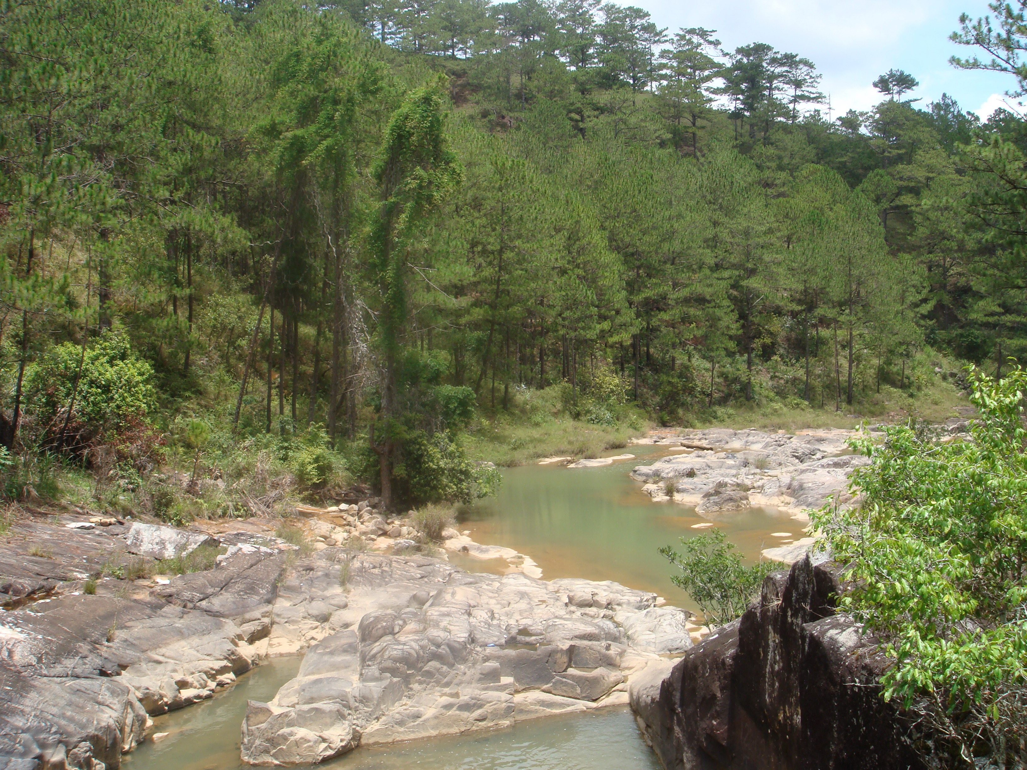 The stream of Golden Valley in Dalat city, Vietnam.